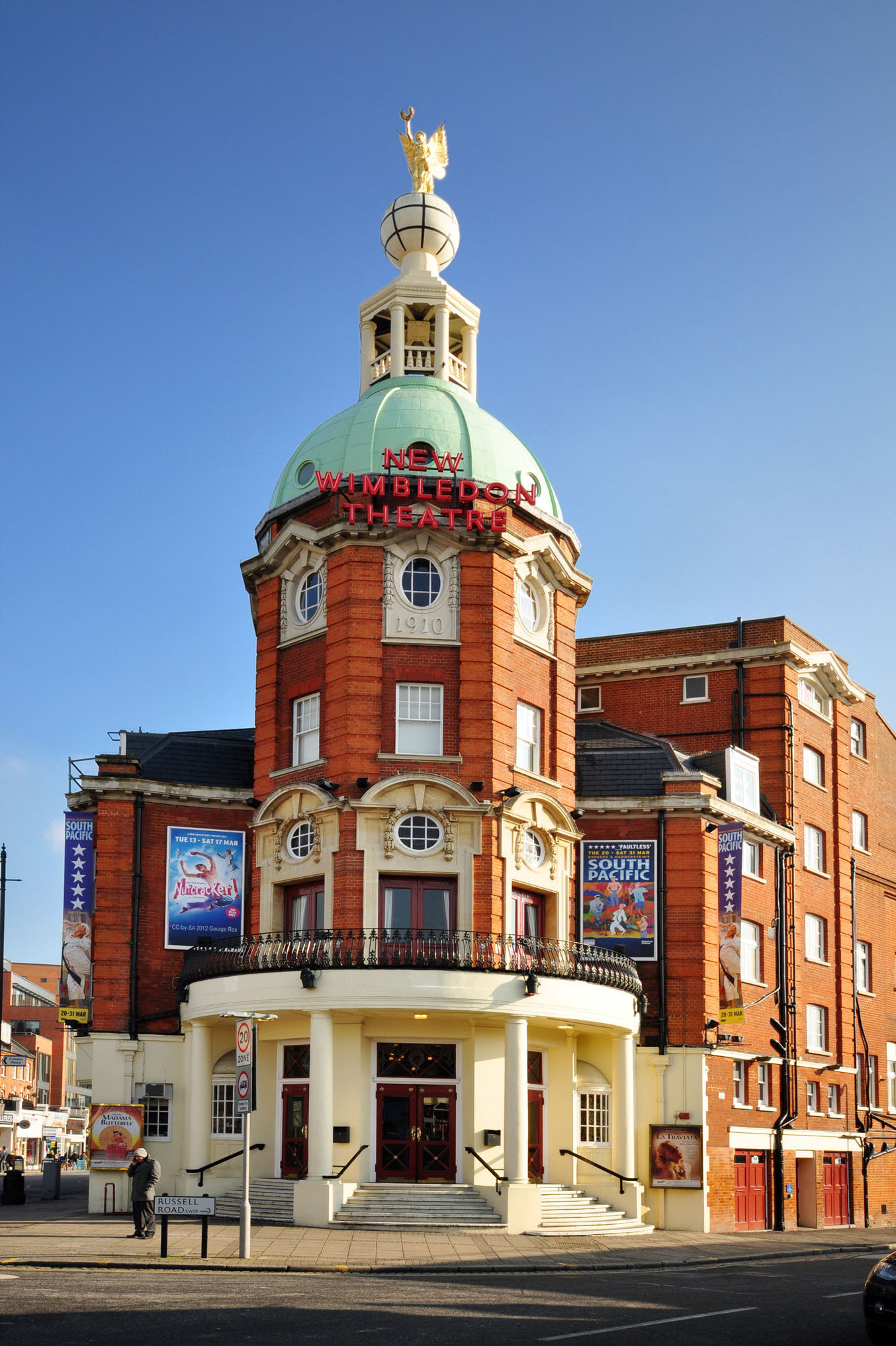 Architects: Cecil Massey and Roy Young, 1910. Grade II listed. At the Broadway and Russell Road, Wimbledon, London Borough of Merton. ( CC BY-SA which means anyone can freely use any size of this image [up to 1362 x 2048px] anywhere, provided accompanied by the credit: Images George Rex.)